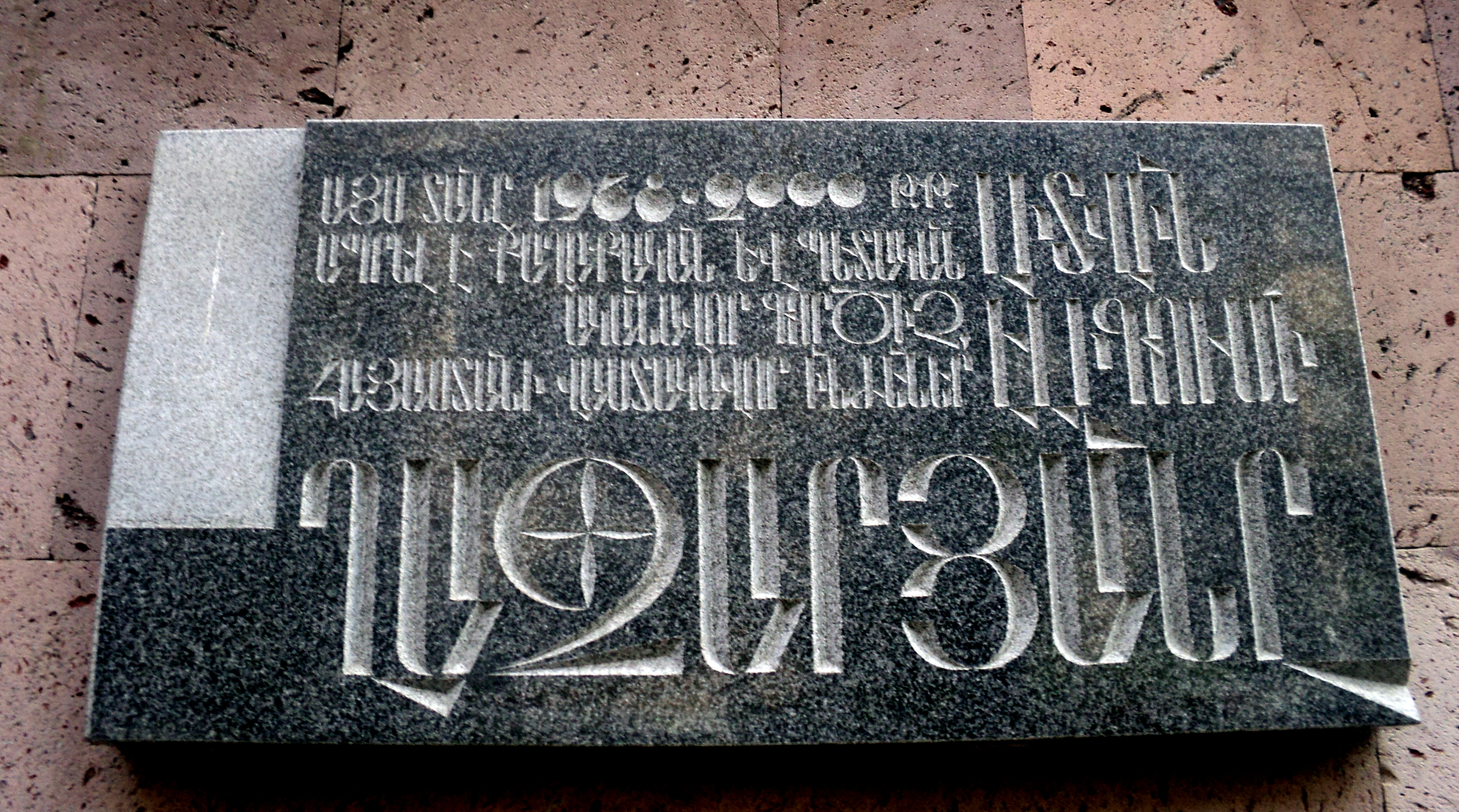 Litvin Eligumi Ghazaryan's plaque